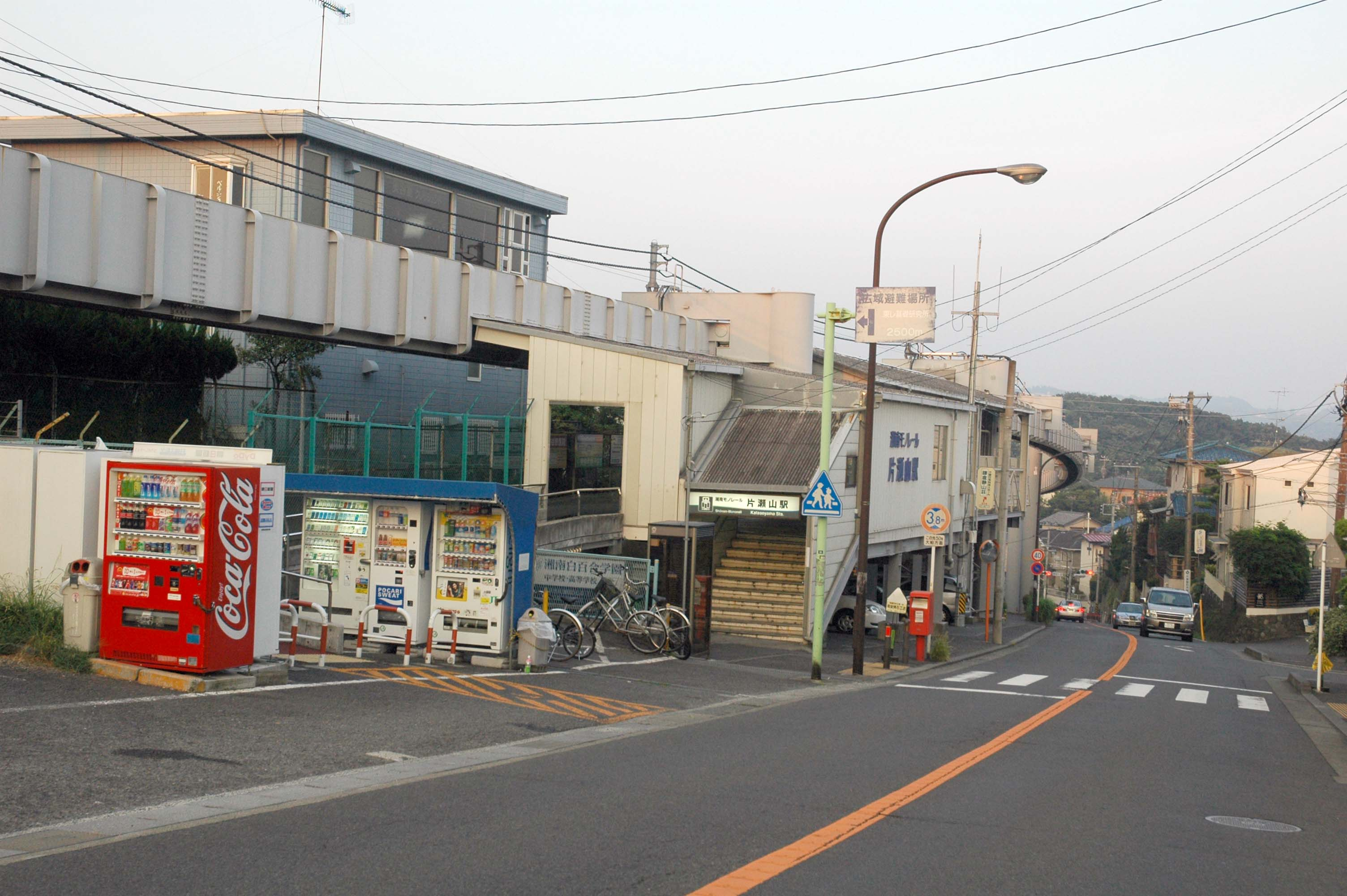 Kataseyama Station